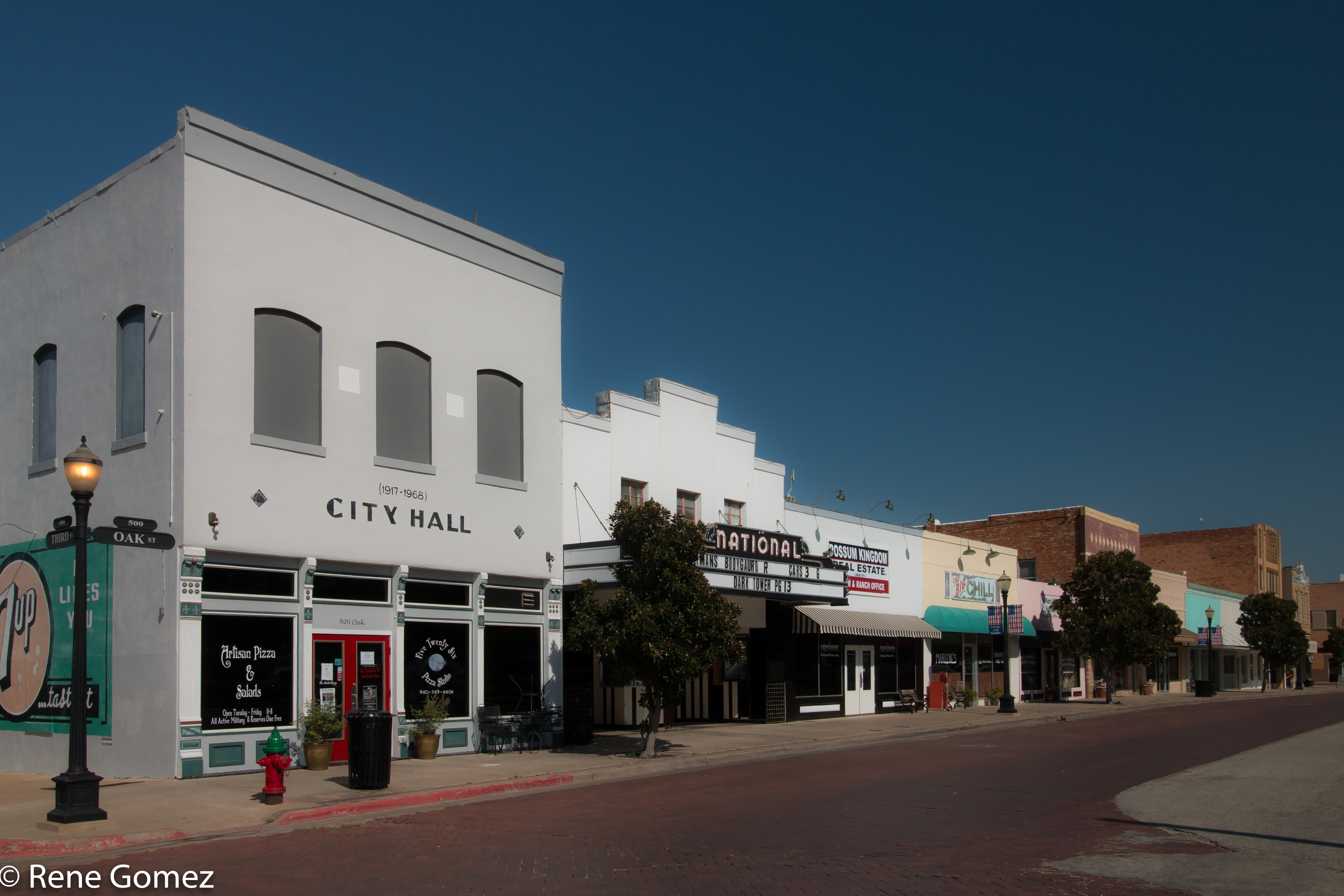 Downtown Graham, Texas